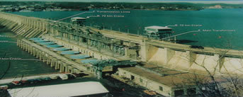 Subject: Bagnell Dam on the Osage River in Missouri Source: National Park Service's [1] Information presented on this website, unless otherwise indicated , is considered in the public domain.[2]